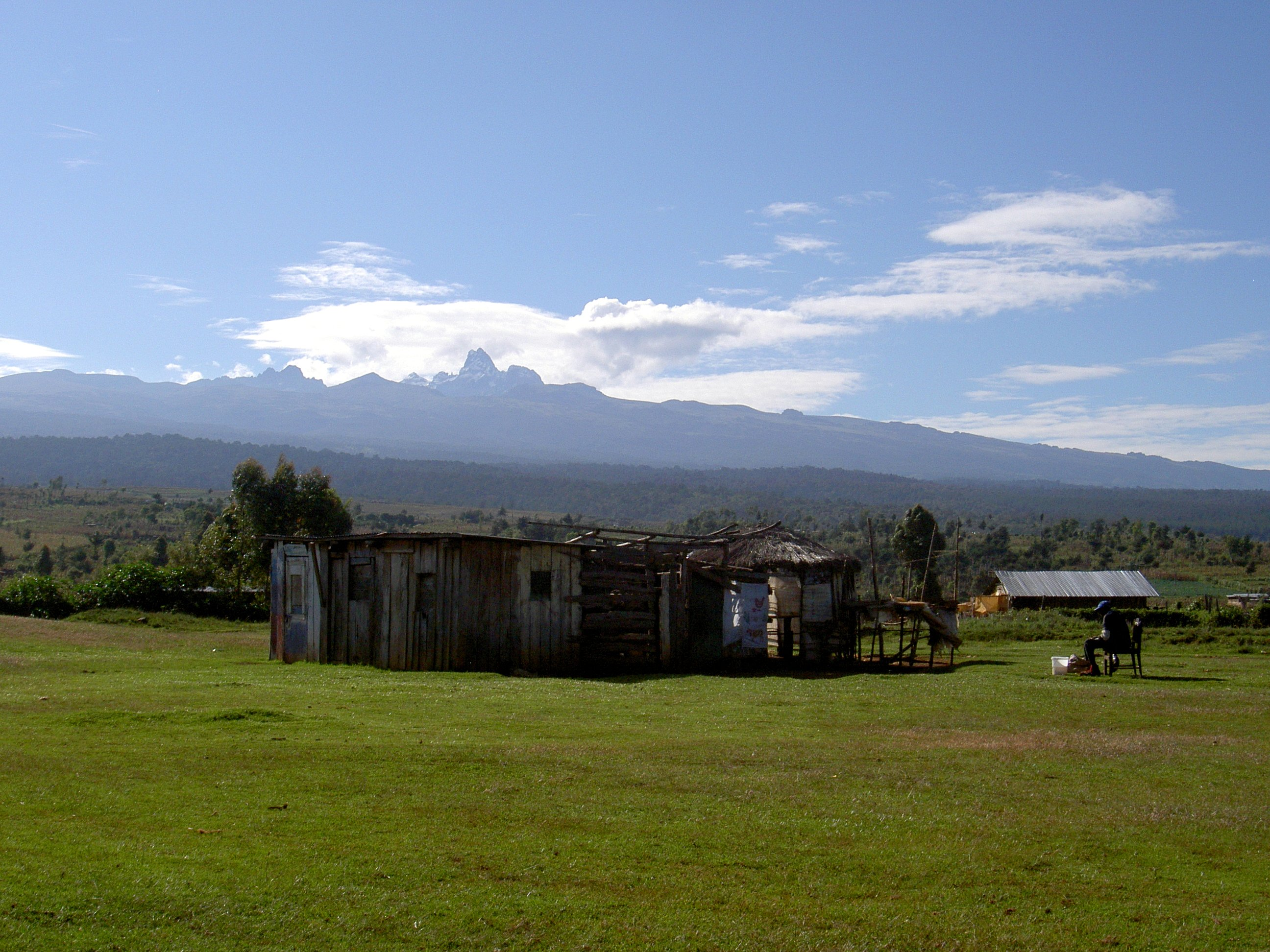 Mount Kenya seen from a distance. The highest points are Batian (5,199m) and Nelion (5,188m). The shape of the ancient shield volcano can be seen on the lower slopes. The higher slopes have been eroded away by an ice cap and subsequent glaciers exposing the central plug which now forms Batian.